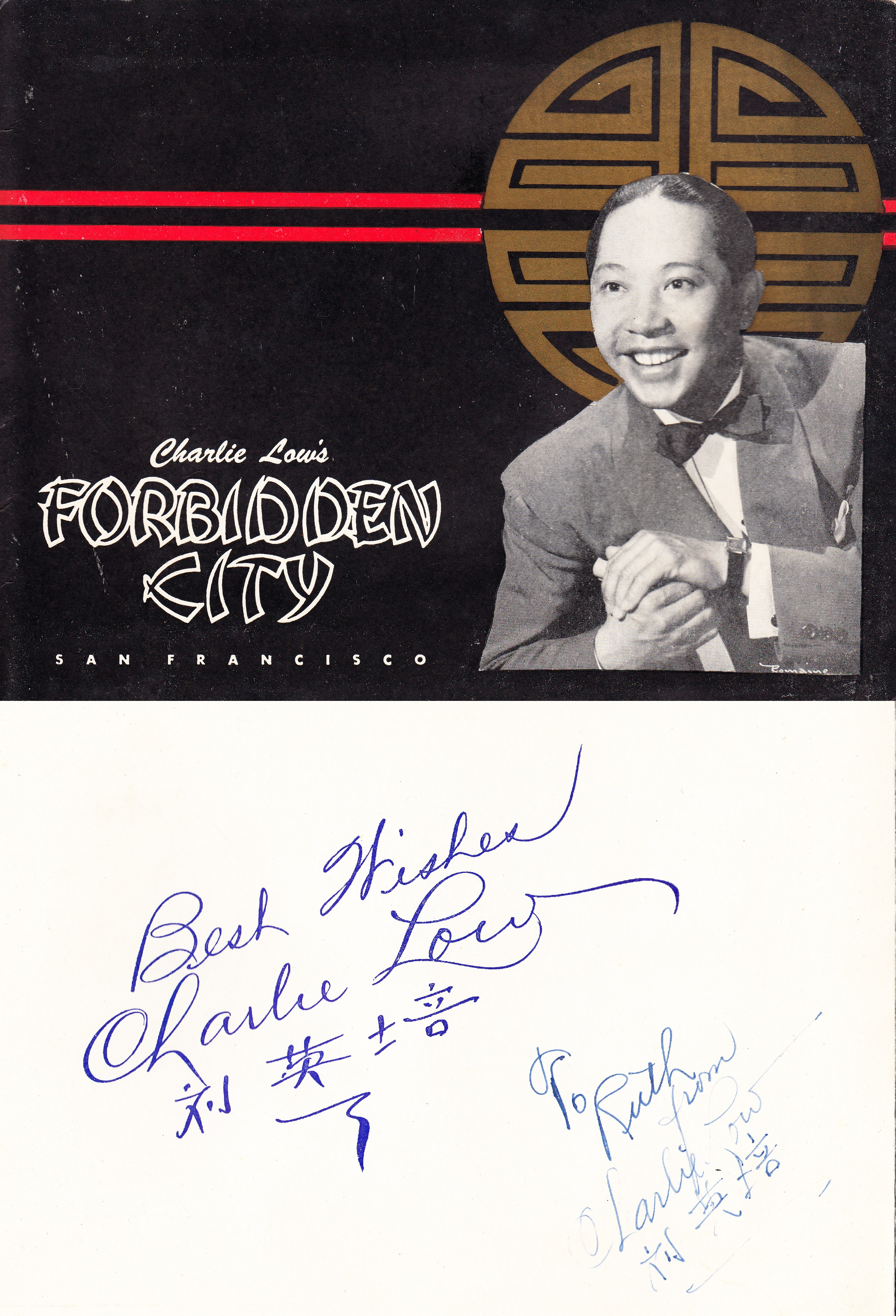 Image of the front and inside of a photo folder. Guests could get a 5x7 image of their evening at the Forbidden City signed by their host Charlie Low.